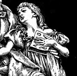 Engraving of Alice Cogswell, daughter of Mason Cogswell, reproduced in Silent Worker, vol. 3, no. 16, September 26, 1889, p. 1